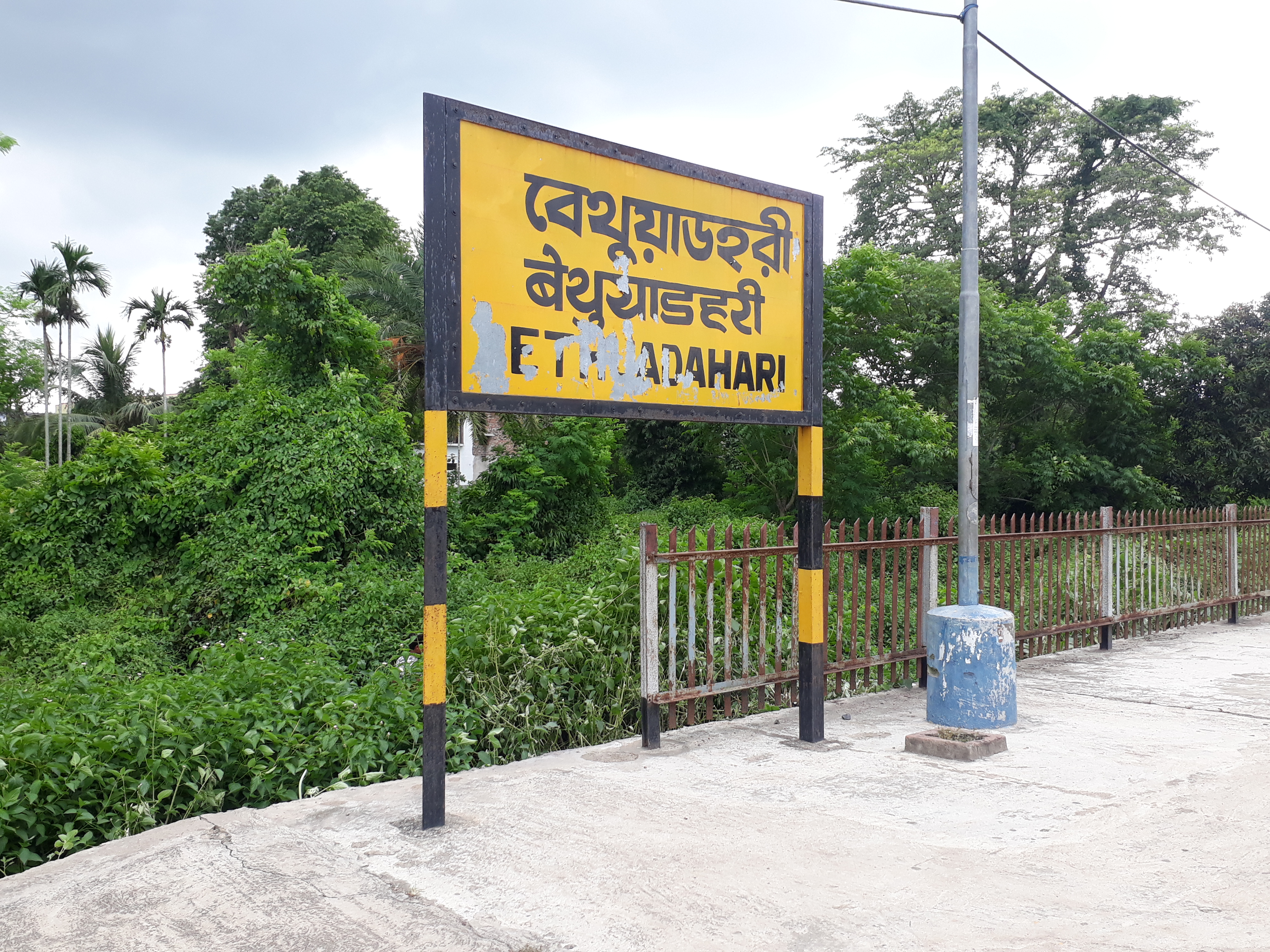 Bethuadahari railway station in Bethuadahari, situated on Ranaghat–Lalgola line in Nadia, West Bengal